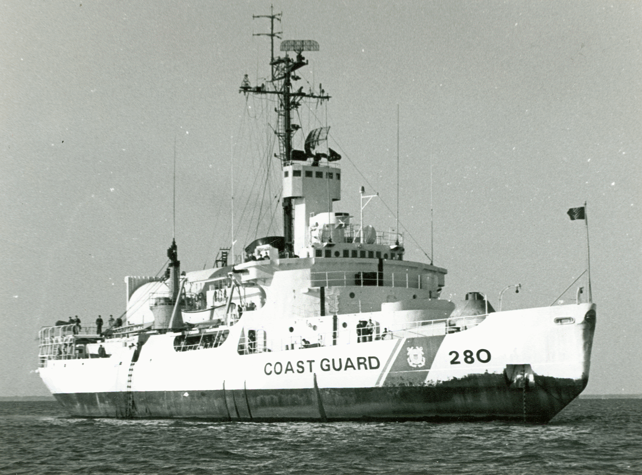 USCGC Southwind near port of USCG Base Berkley, after returning from a 27,000 mile tour of the Arctic.